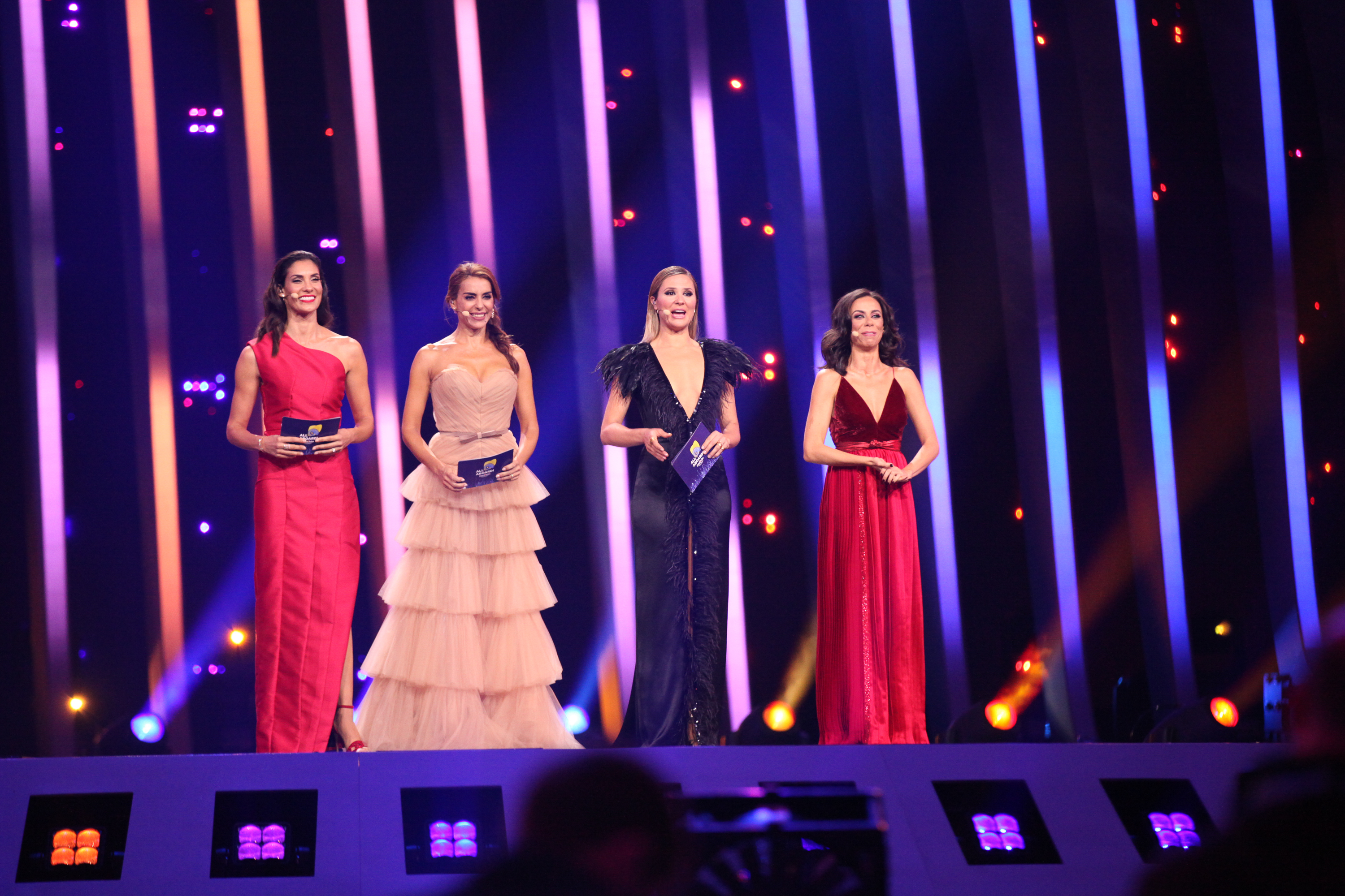 Hosts of the Eurovision Song Contest 2018: Daniela Ruah, Catarina Furtado, Sílvia Alberto and Filomena Cautela